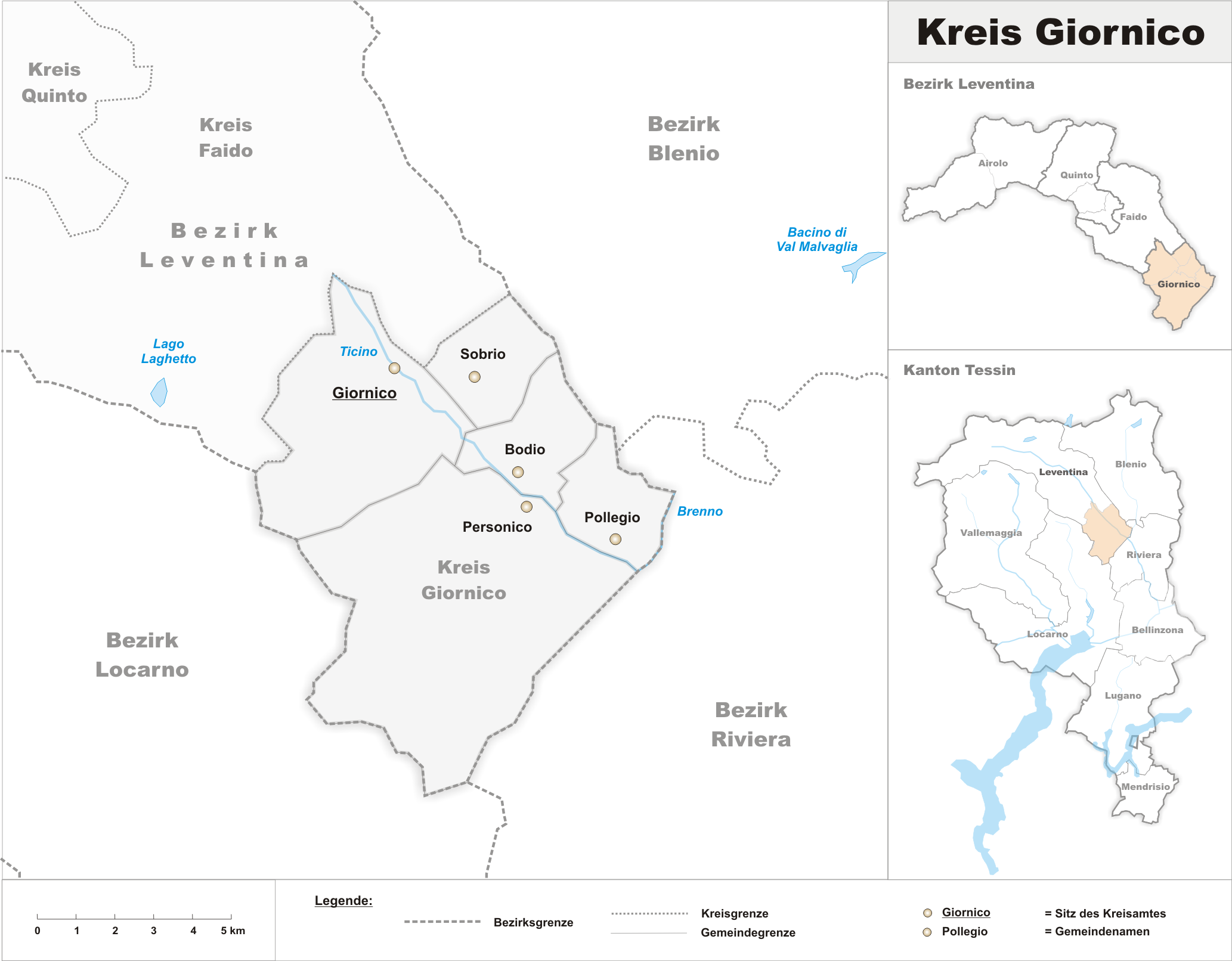 Municipalities in the circle of Giornico